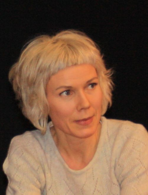 La Scène des Auteurs conference with Johanna Luyssen, Edouardo Berti, Hanne Orstavik at the Salon du Livre in Paris, France